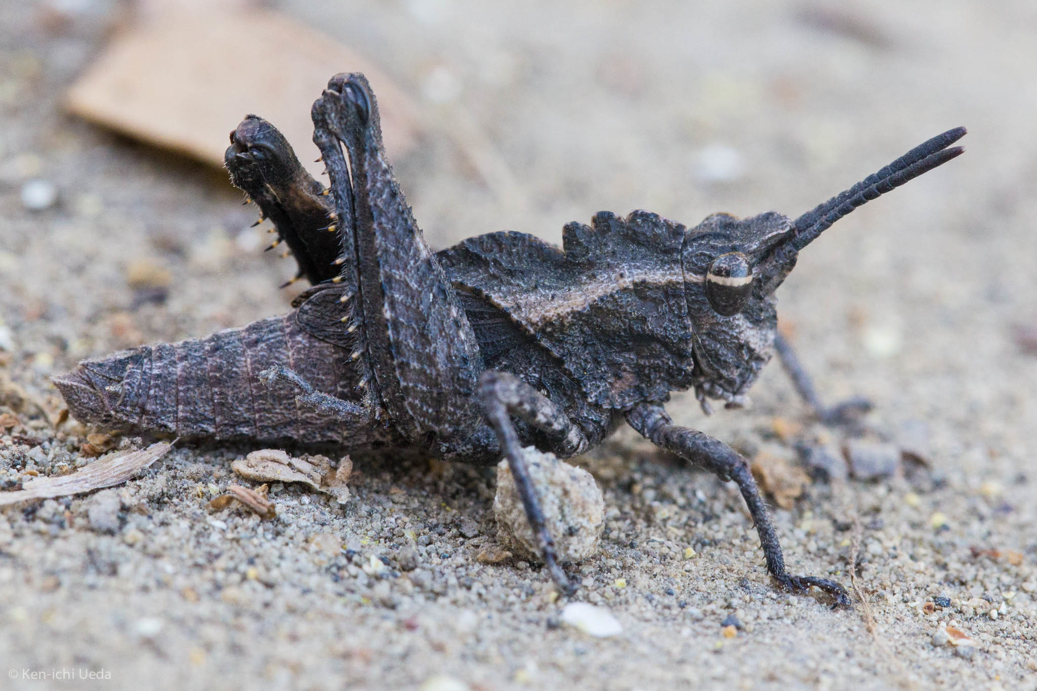 Gray Dragon Lubber (Dracotettix monstrosus). Species of insect.